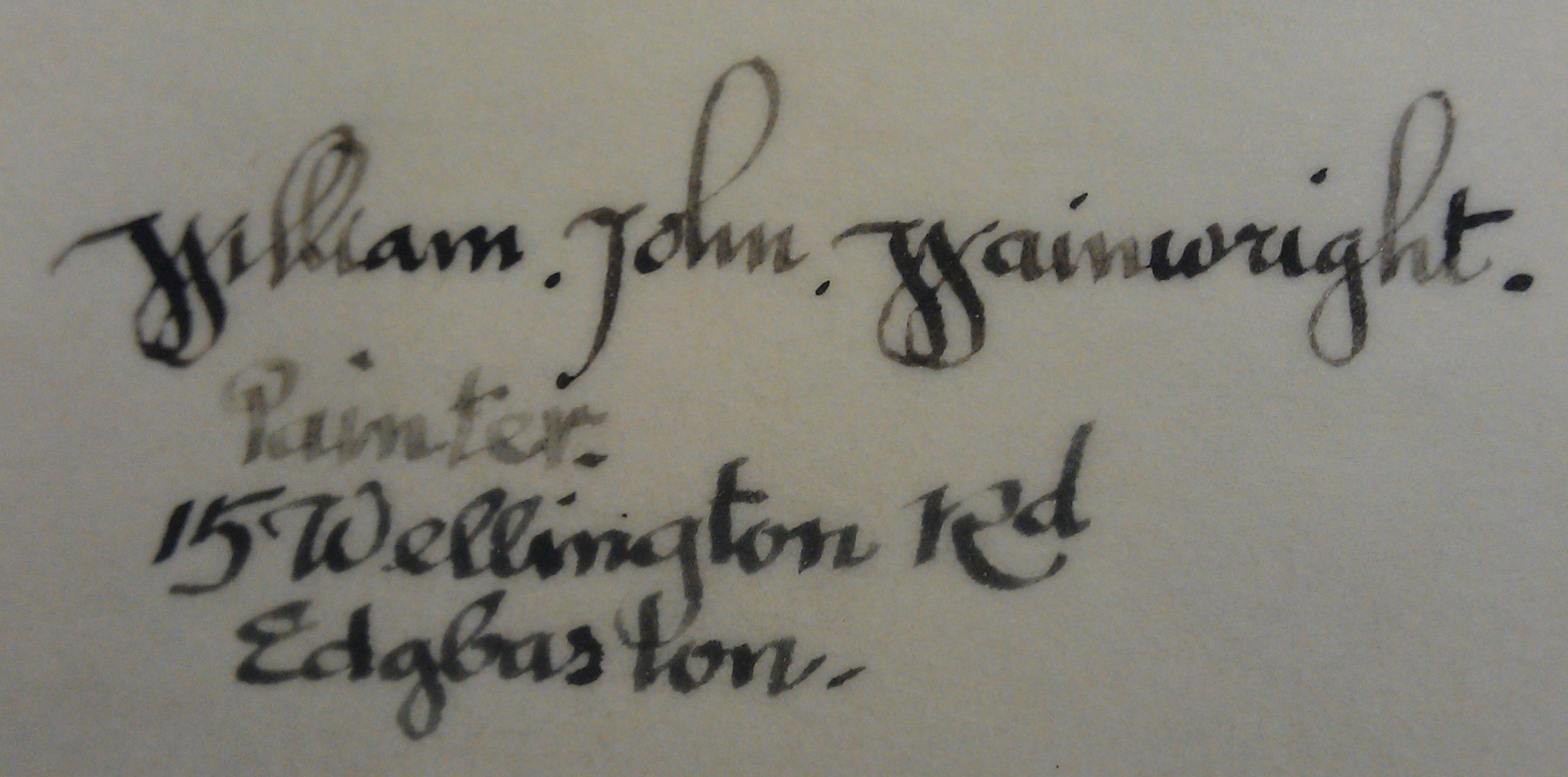 William John Wainwright's entry in the Royal Birmingham Society of Artists members' register; in his own hand. Reads: "William John Wainwright, Painter, 15, Wellington Rd, Edgbaston"